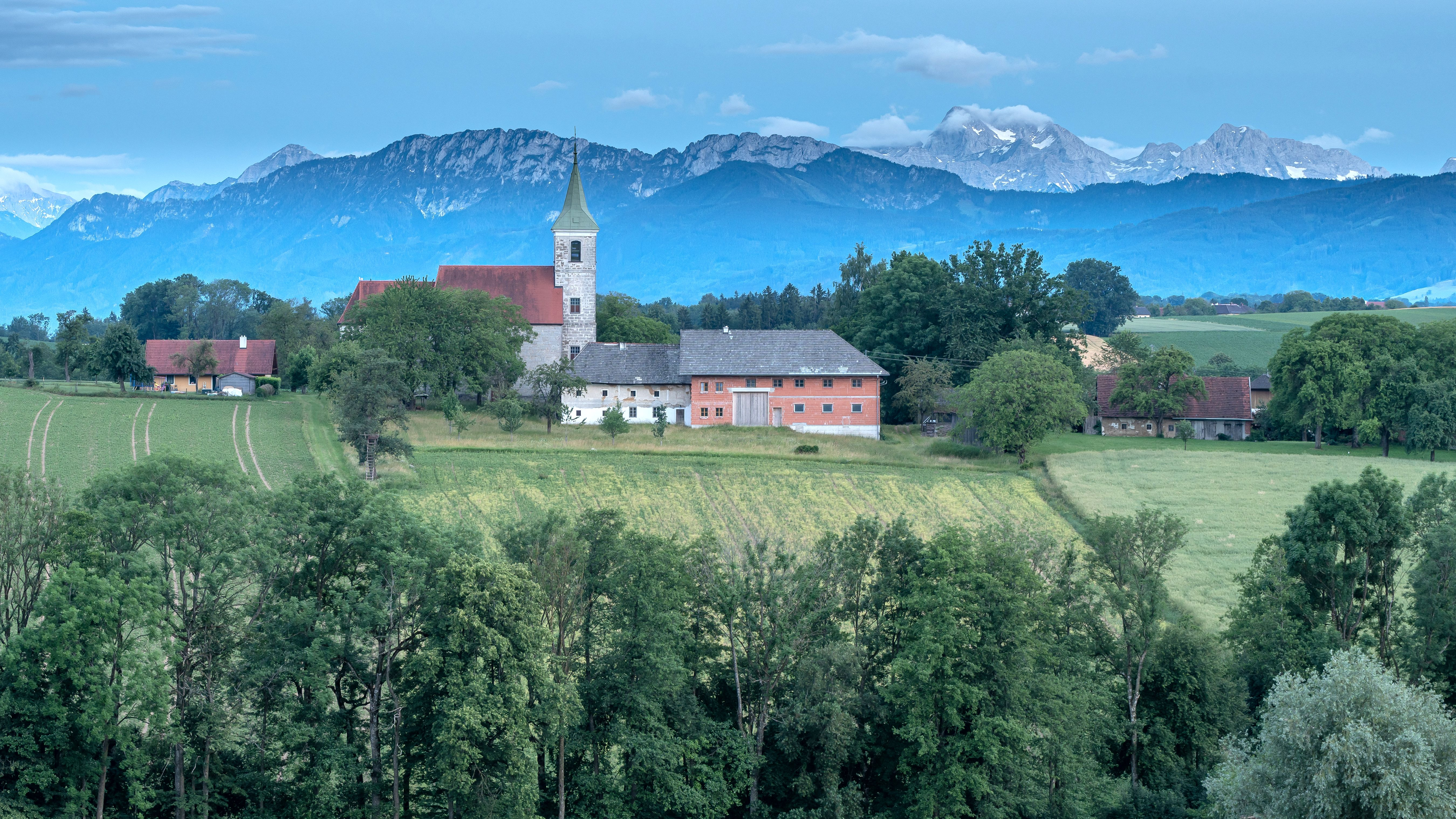 The filial church in Weigersdorf was finished in 1476. It is dedicated to Saint James the Greater.